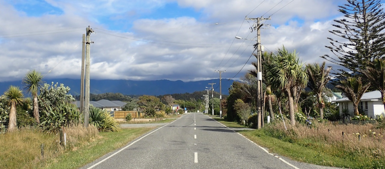 Hotel and pub at Little Wanganui, Buller District, West Coast, New Zealand